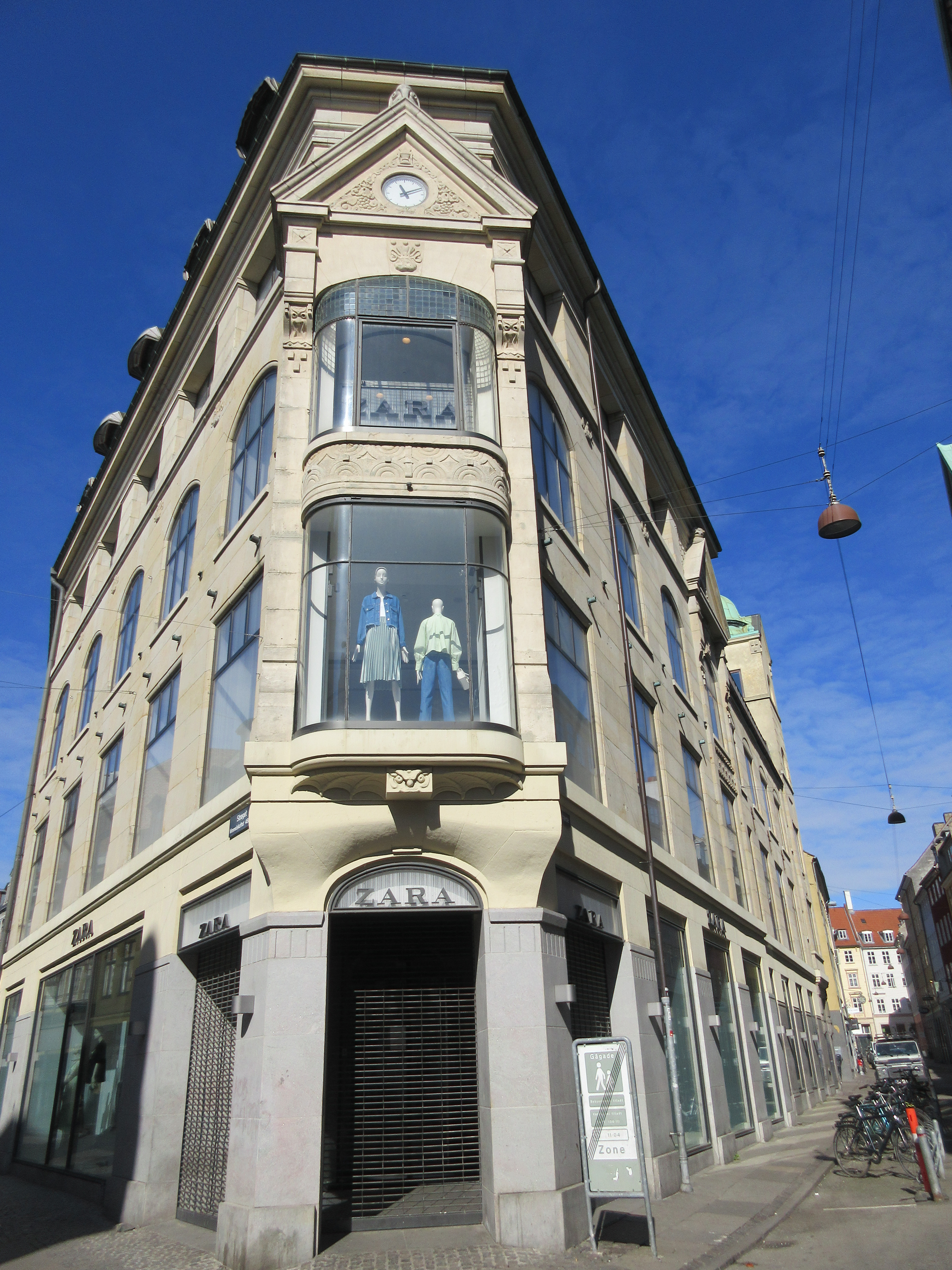 The Neye Building at the corner of Vimmelskaftet and Klostersgtræde in Copenhagen, Denmark